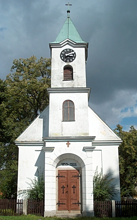 Chapel of St Florian (1860) in Hornosín, Czech Republic.